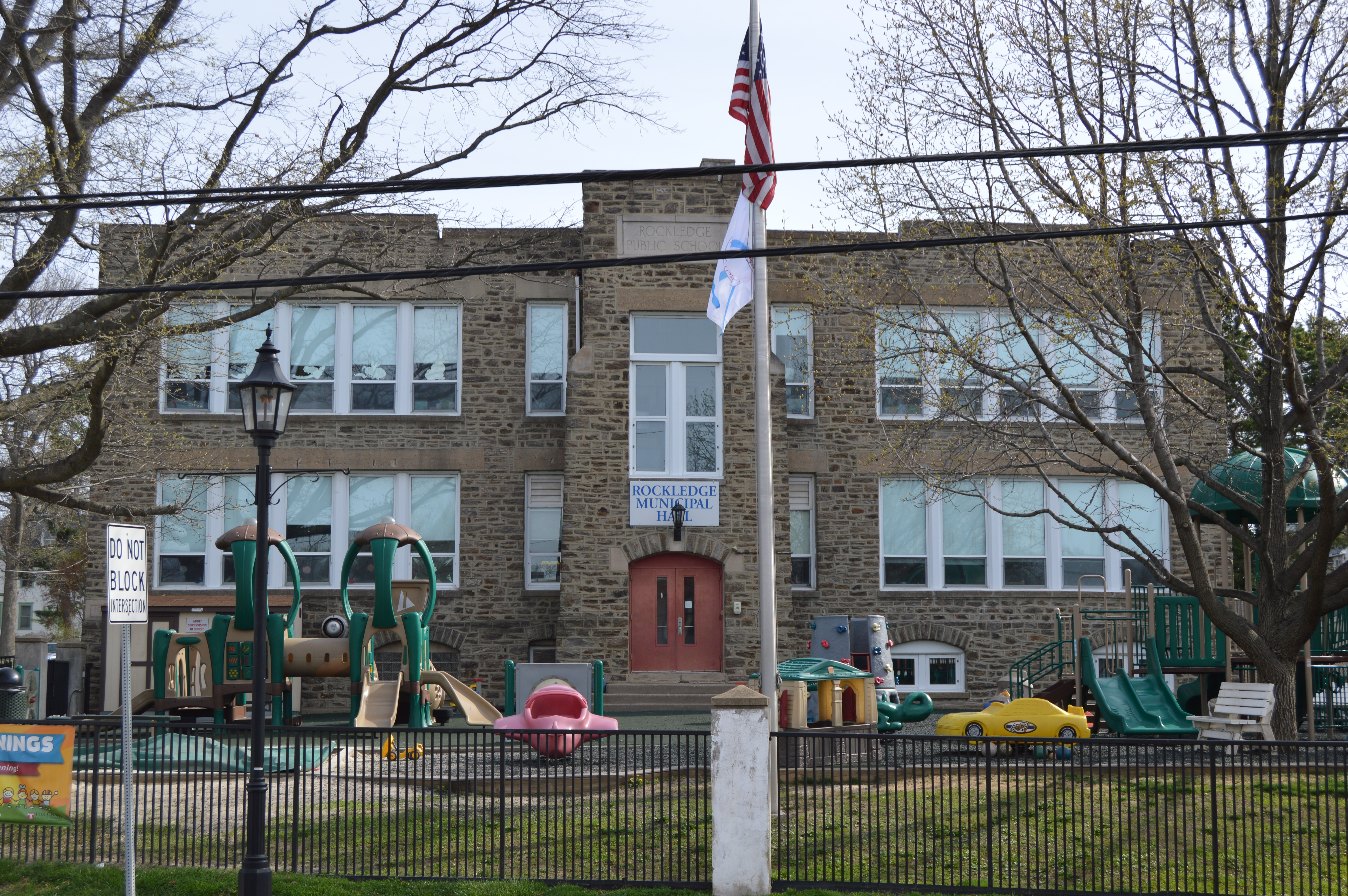 Front of the Rockledge municipal building (a former school), located at 121 Huntingdon Pike (Pennsylvania Route 232) in Rockledge, Pennsylvania, United States.